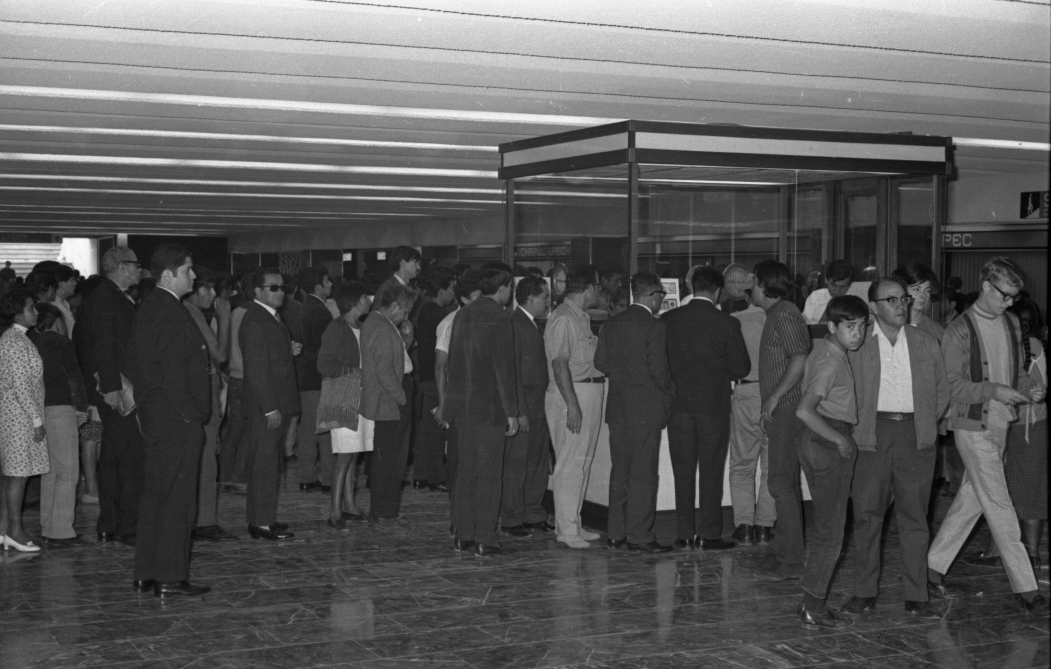 Persons buying tickets at Chapultepec station after opening of Mexico City Subway, Mexico City, Mexico.